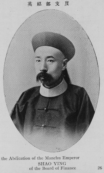 Shaoying (1861－1925)